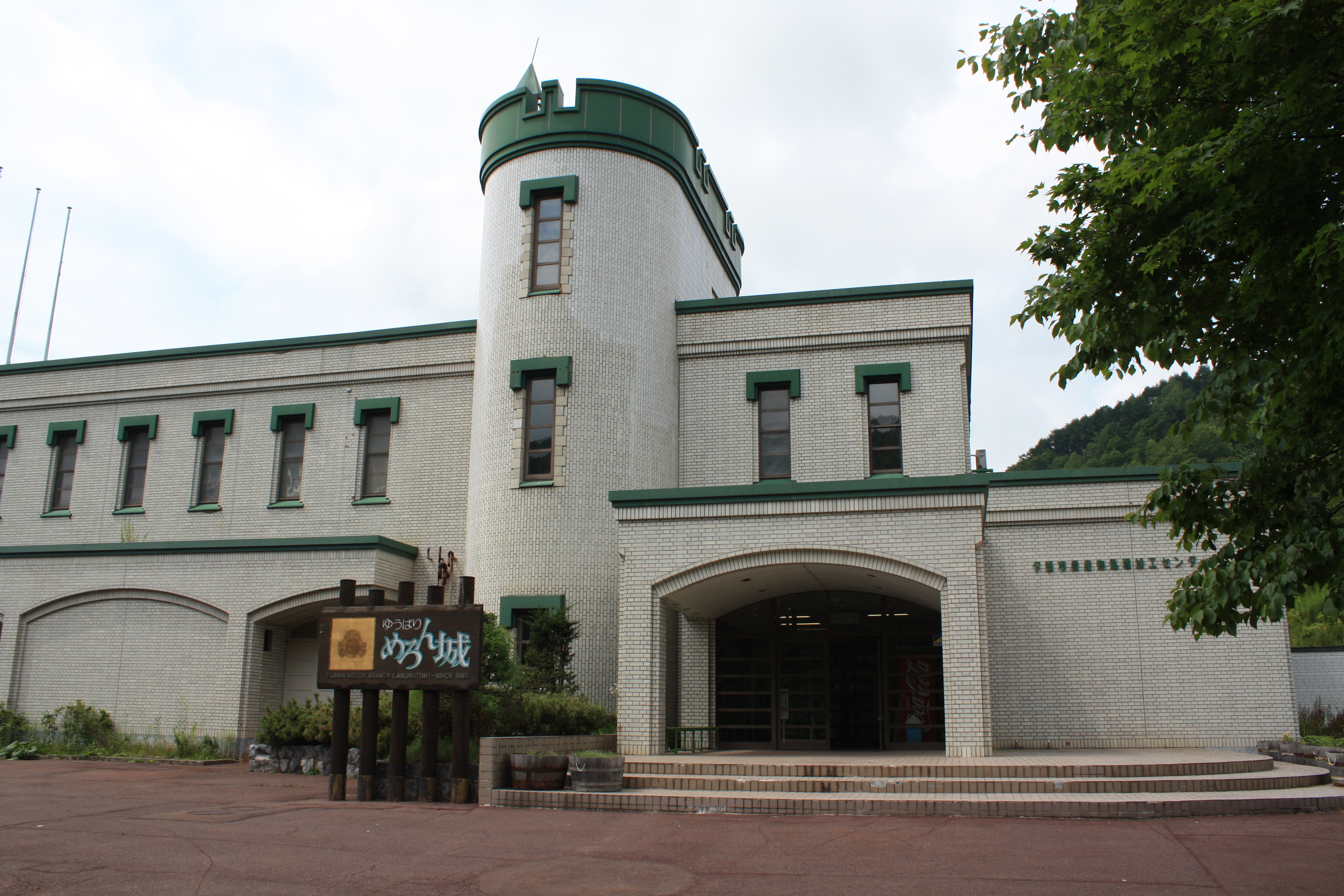 Yubari Melon Castle (Yubari Melon Brandy Laboratory) in Yūbari, Hokkaidō, Japan.